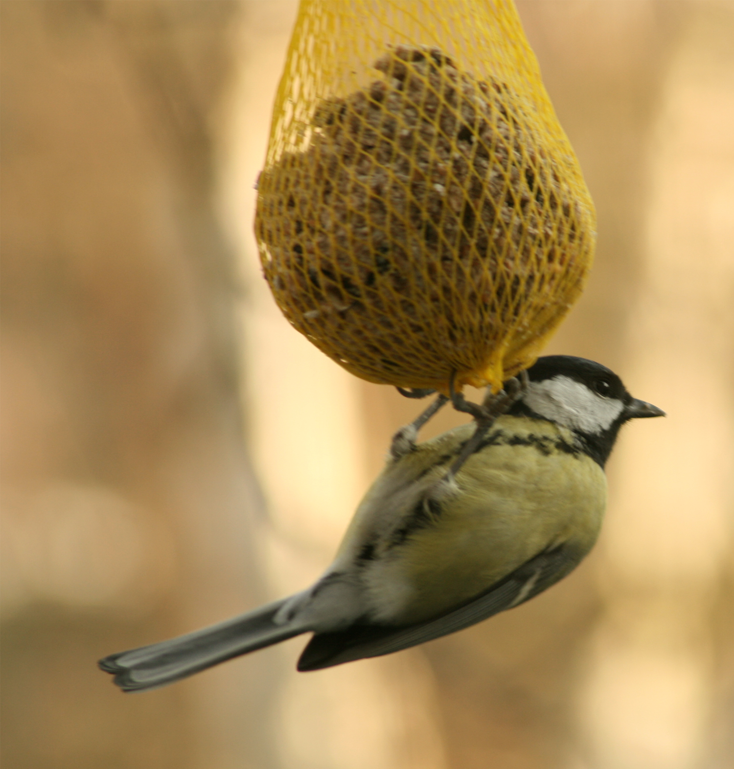 Parus major Sýkora koňadra photo in East Bohemia, Europe January 2008 Author= Karelj